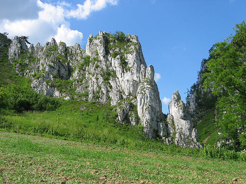 Poland. Bolechowice Valley near Cracow. West wall.